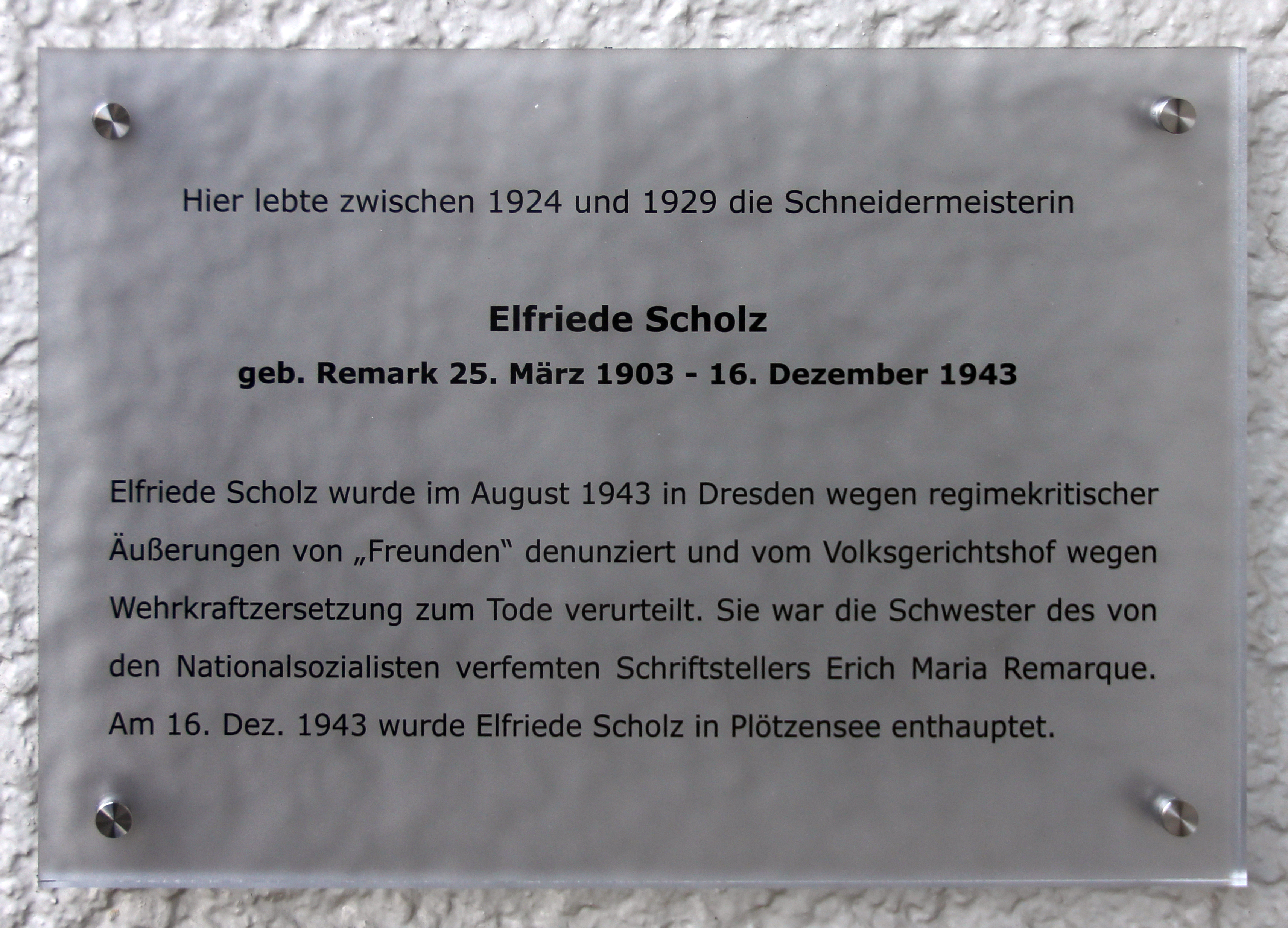 Memorial plaque, Elfriede Scholz, Suarezstraße 31, Berlin-Charlottenburg, Germany